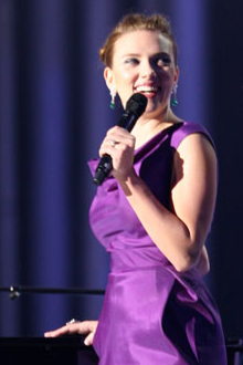 Scarlett Johansson at the 2008 Nobel Peace prize Concert, Oslo Spektrum.